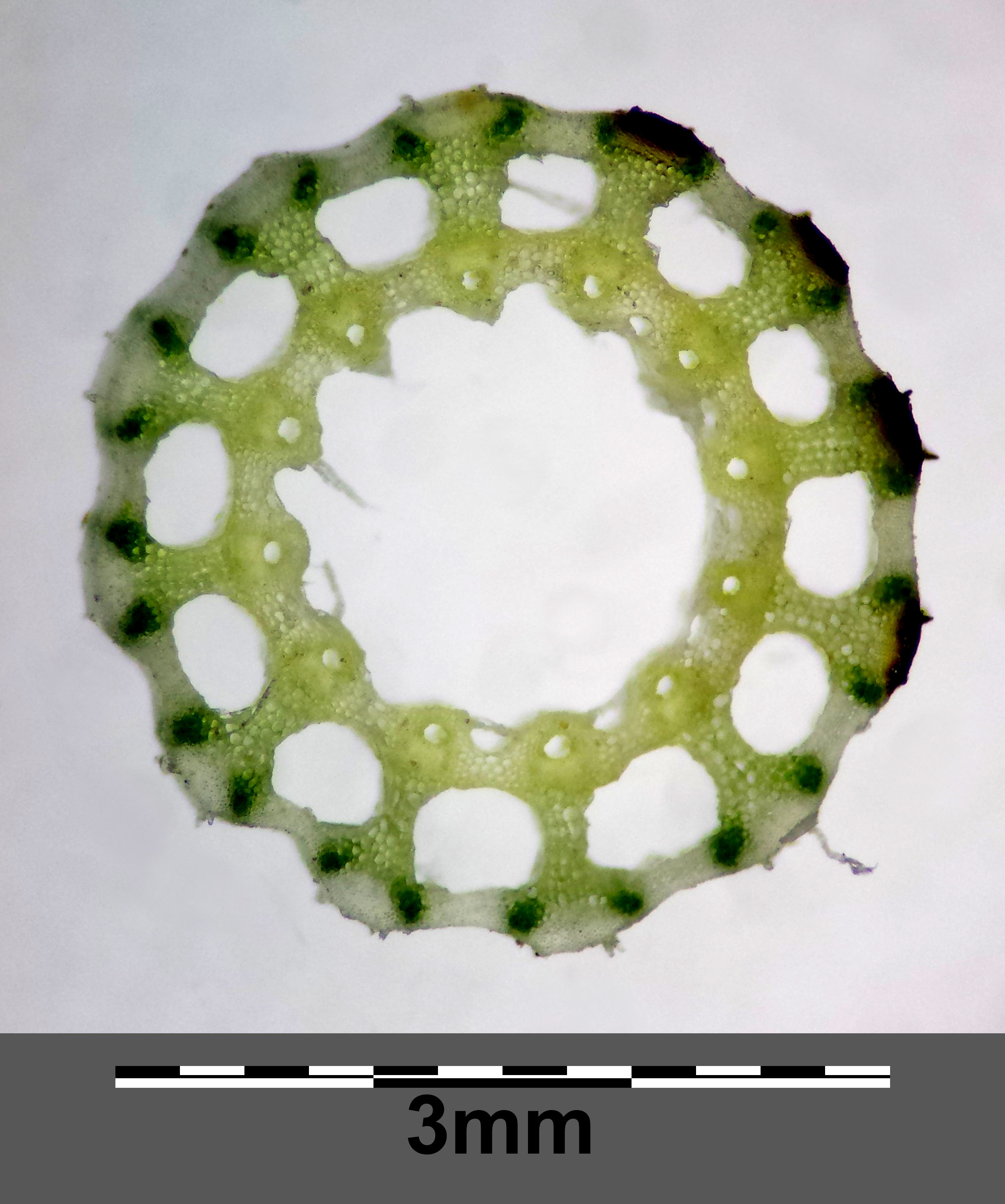 Stem (slice) Taxonym: Equisetum sylvaticum ss Fischer et al. EfÖLS 2008 ISBN 978-3-85474-187-9 Location: nearby Riebeis, Rappottenstein, district Zwettl, Lower Austria - ca. 750 m a.s.l. Habitat: wood